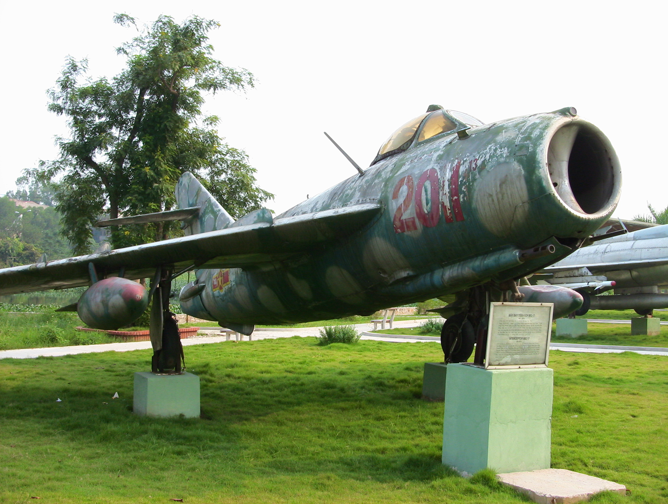 A MiG-17 owned by the fighter regiment 923. On May 12th, 1967 it driven by Ngo Duc Mai to shot down US Air Force F-4C 63-7614. Máy bay tiêm kích MIG17 mang số hiệu 2011 đang được trưng bày tại Bảo tàng Phòng không Không quân, Hà Nội. Trong thời gian chiến tranh Việt Nam, nhiều anh hùng lực lượng vũ trang của đoàn 923 Không quân Nhân dân Việt Nam đã điều khiển chiếc máy bay này. Ngày 12/5/1967, Ngô Đức Mai (lúc đó là trung úy) đã điều khiển máy bay này và bắn rơi máy bay của Normal Cagadixo (lúc đó là đại tá không lực Hoa Kỳ).